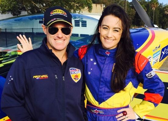 Libby Munro after flying with world famous fighter pilot Matt Hall while doing extensive research for her award winning role in Grounded, by George Brandt